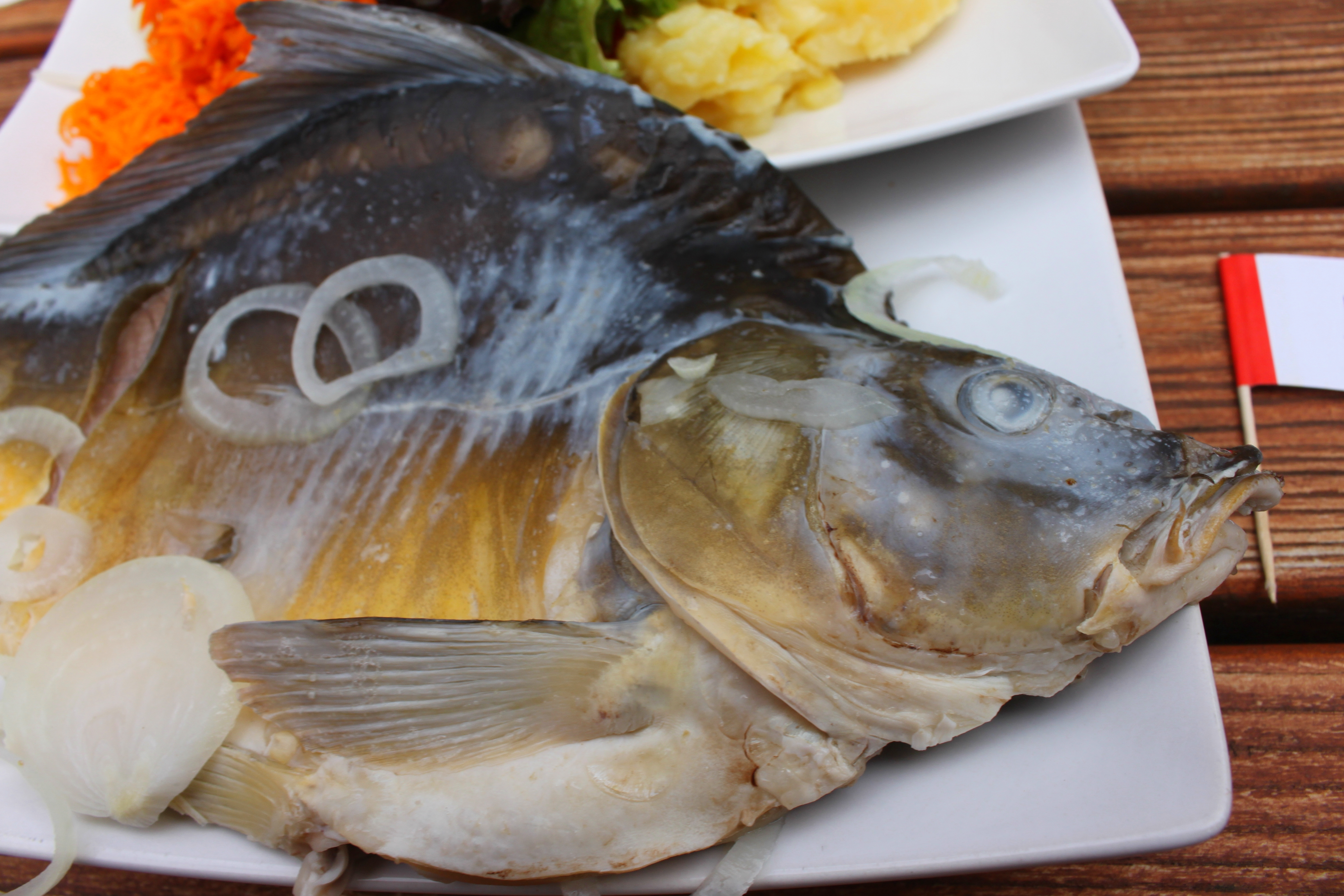 Poached Carp, cooked in vinegar, onion stock with mixed salad as a side dish. Photographed at Gasthaus zum Hirschen in Bad Windsheim.